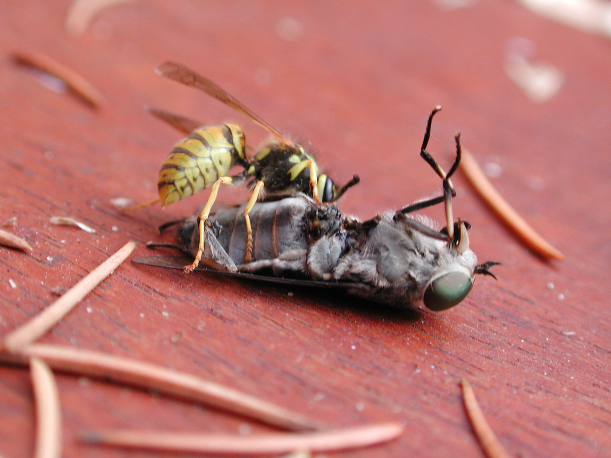 Lots of buzzing noise from the floor of a sloop. A wasp attacks and eats a horsefly. Picture 4 of 4.